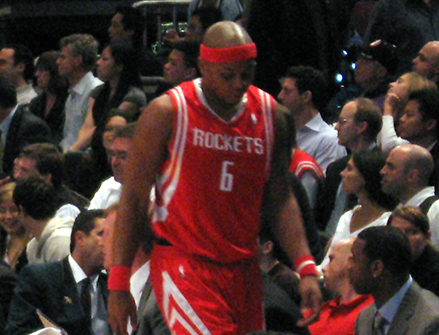 Bonzi Wells returns to the bench with an injured Tracy McGrady, during an away game at Madison Square Garden.